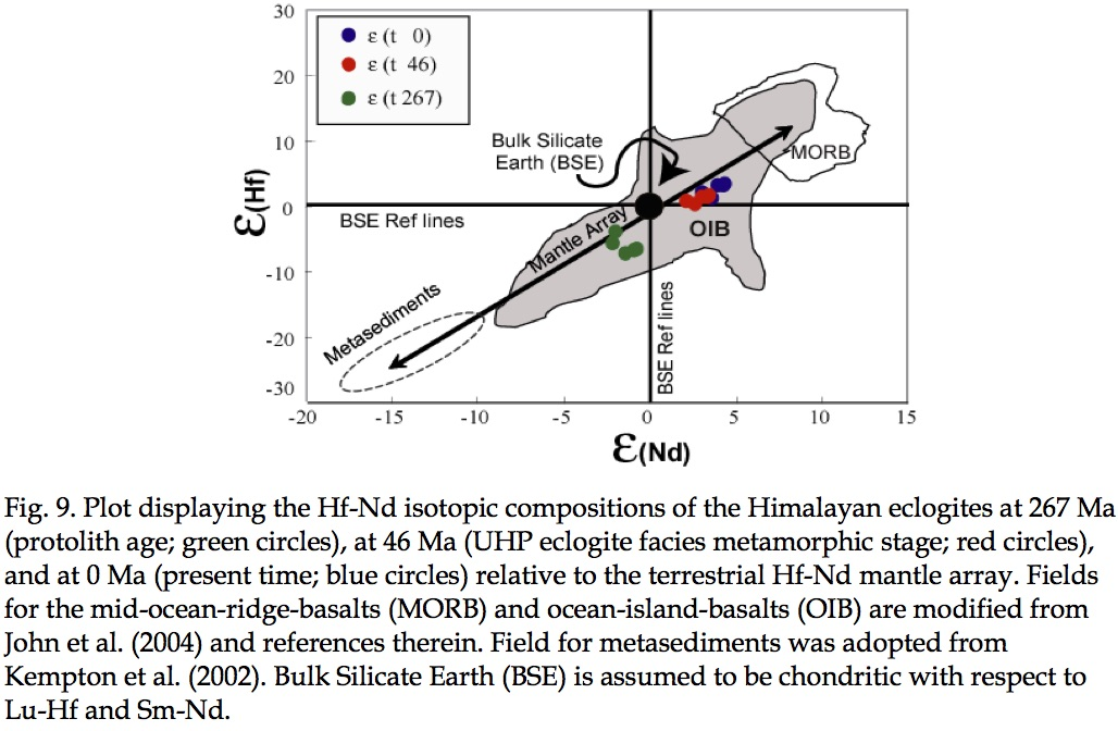 ɛHf plot.